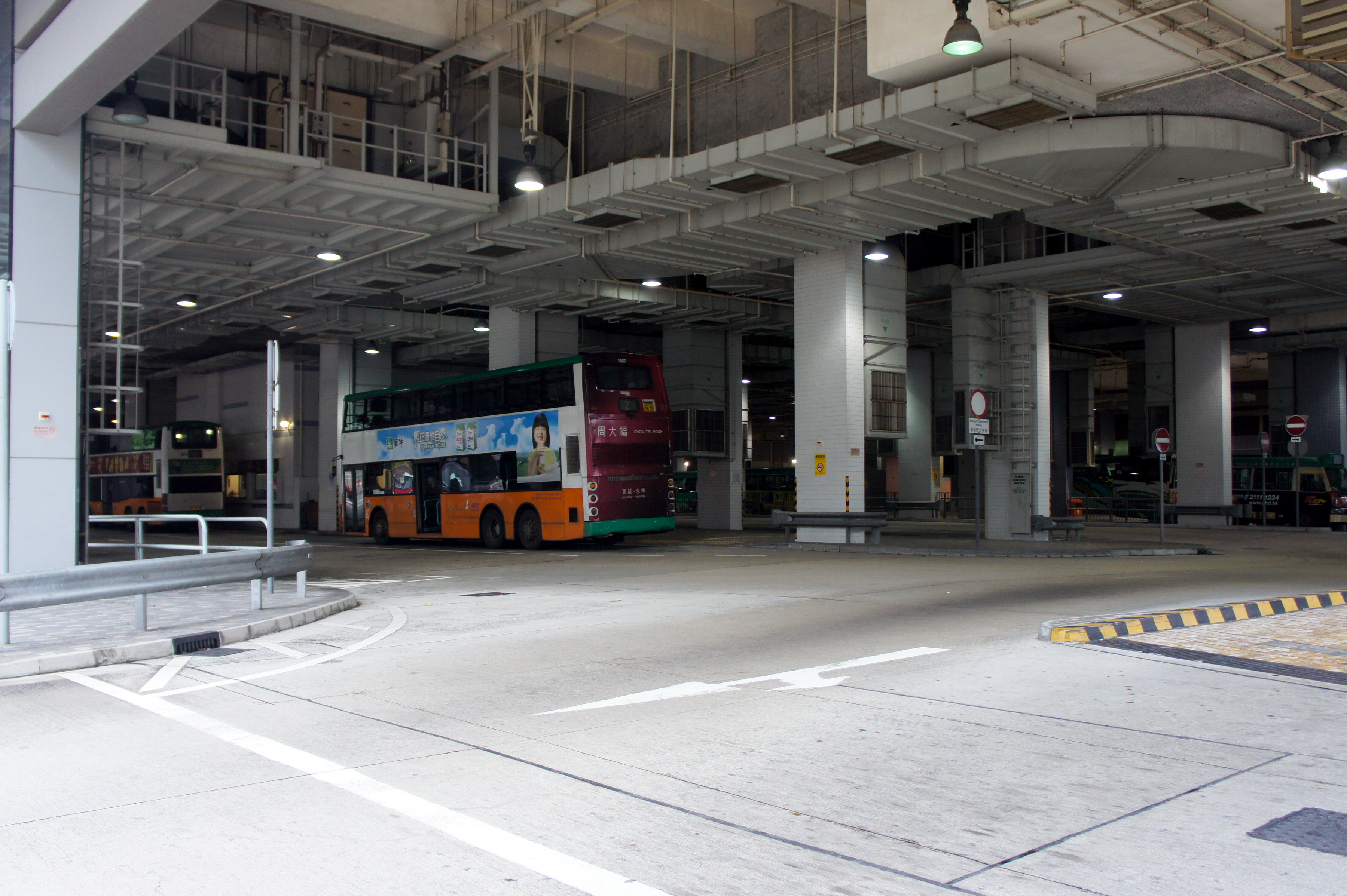 Sai Wan Ho (Grand Promenade) Public Transport Interchange, Hong Kong.